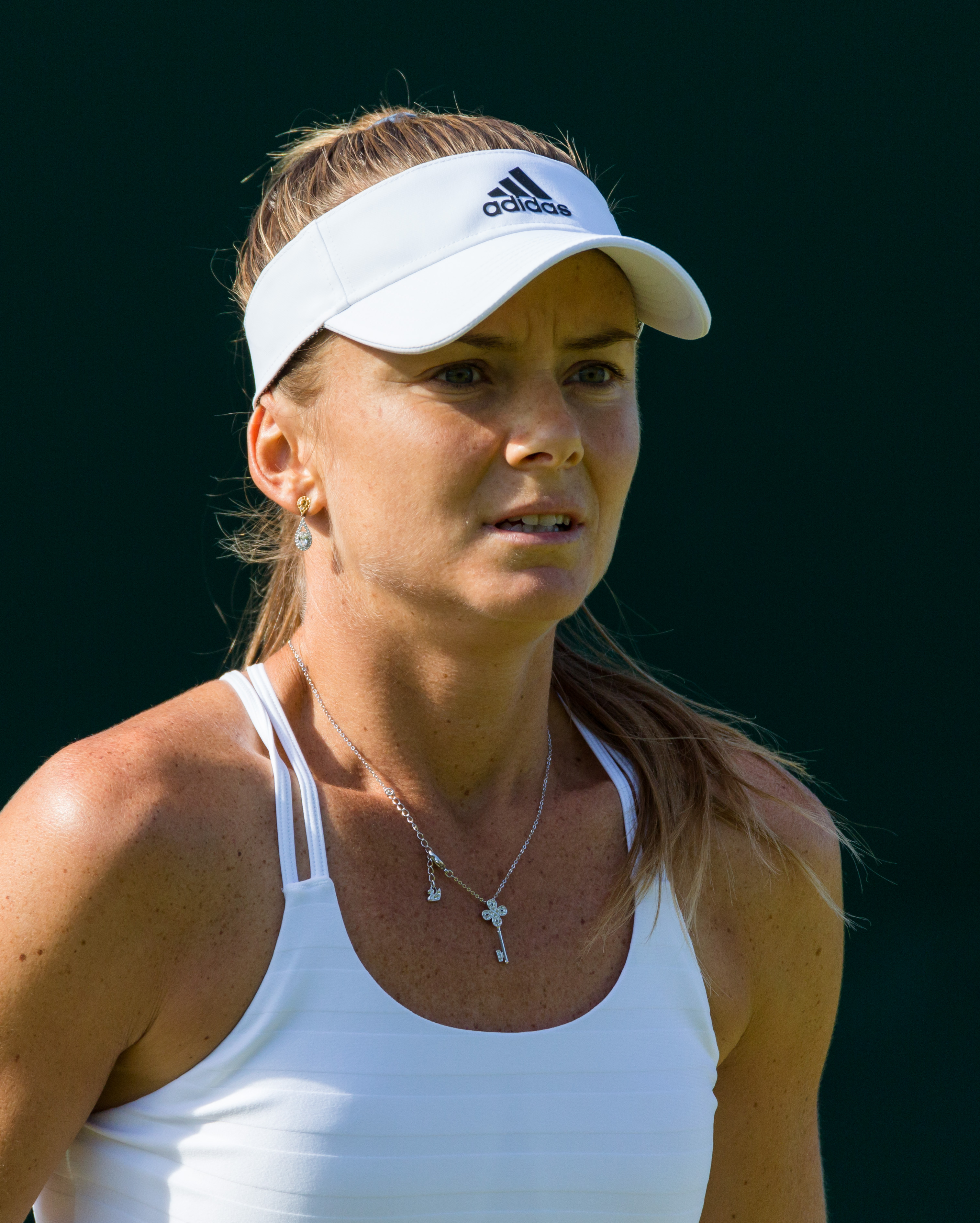 Daniela Hantuchová competing in the first round of the 2015 Wimbledon Championships against Dominika Cibulkova.